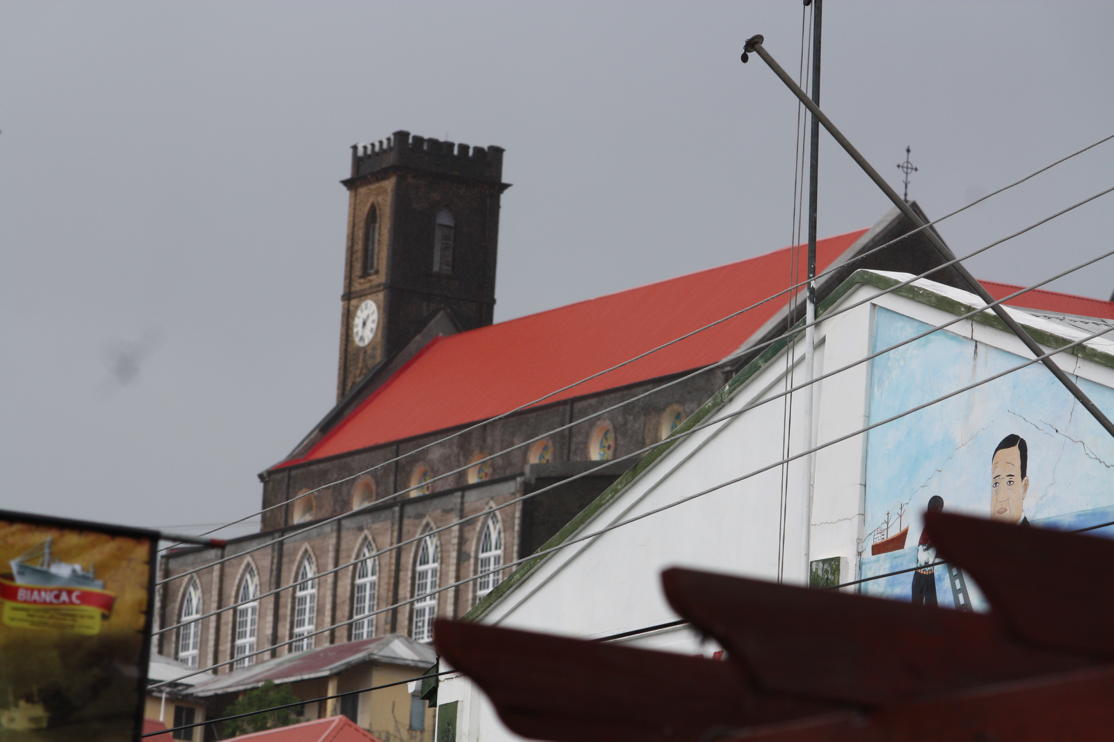 In the middle Cathedral of the Immaculate Conception and on the left an advertisement for the Bianca C exhibition in the National Museum. The Italian passengership was destroyed by a fire and sank in front of the Port St. George's in 1961. - Grenada